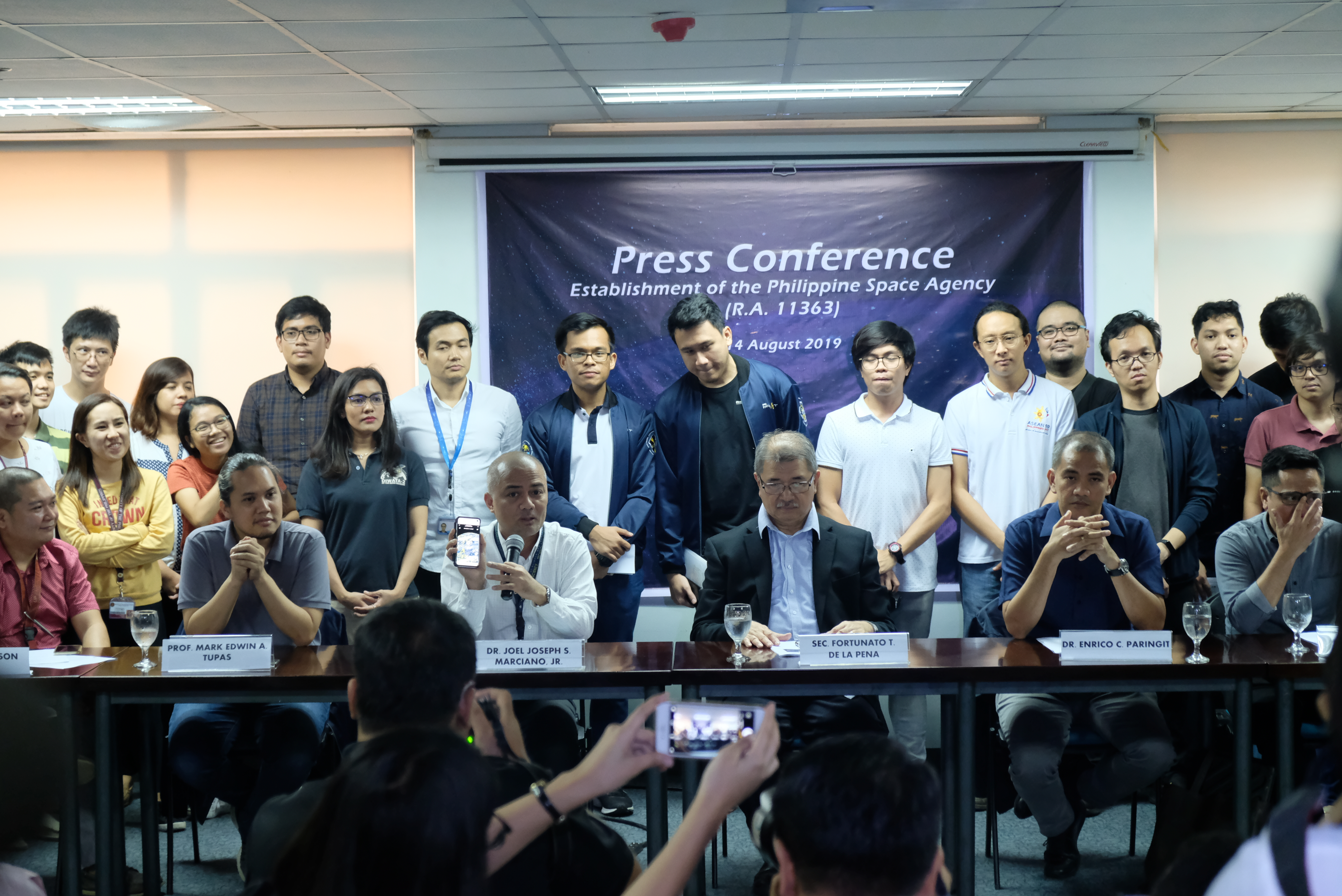 The DOST panel together with the space technology scientists, researchers, and scholars of the country. They are participants of a Press Conference regarding the establishment of the Philippine Space agency.